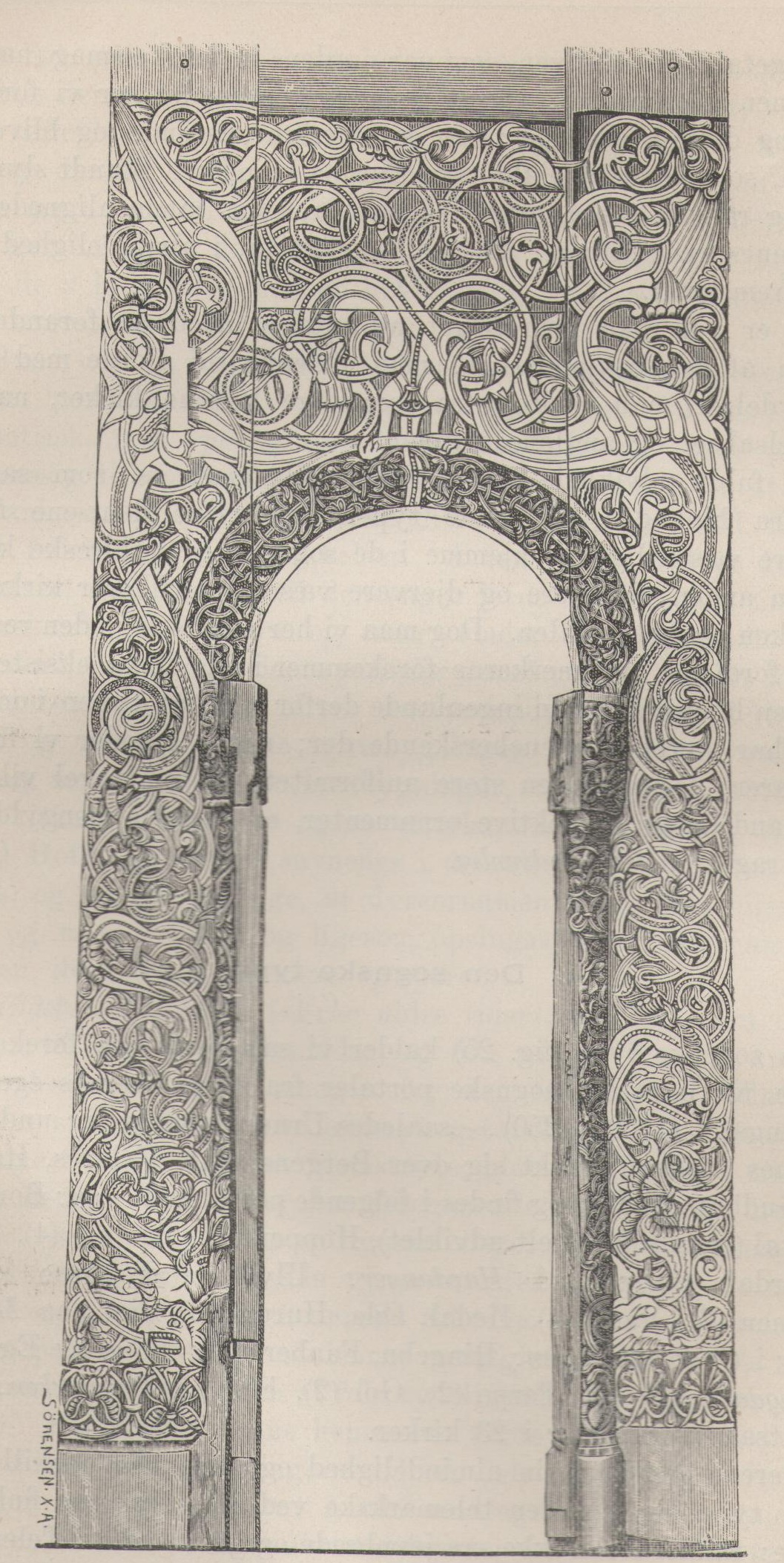 Print of portal from Stedje stave church